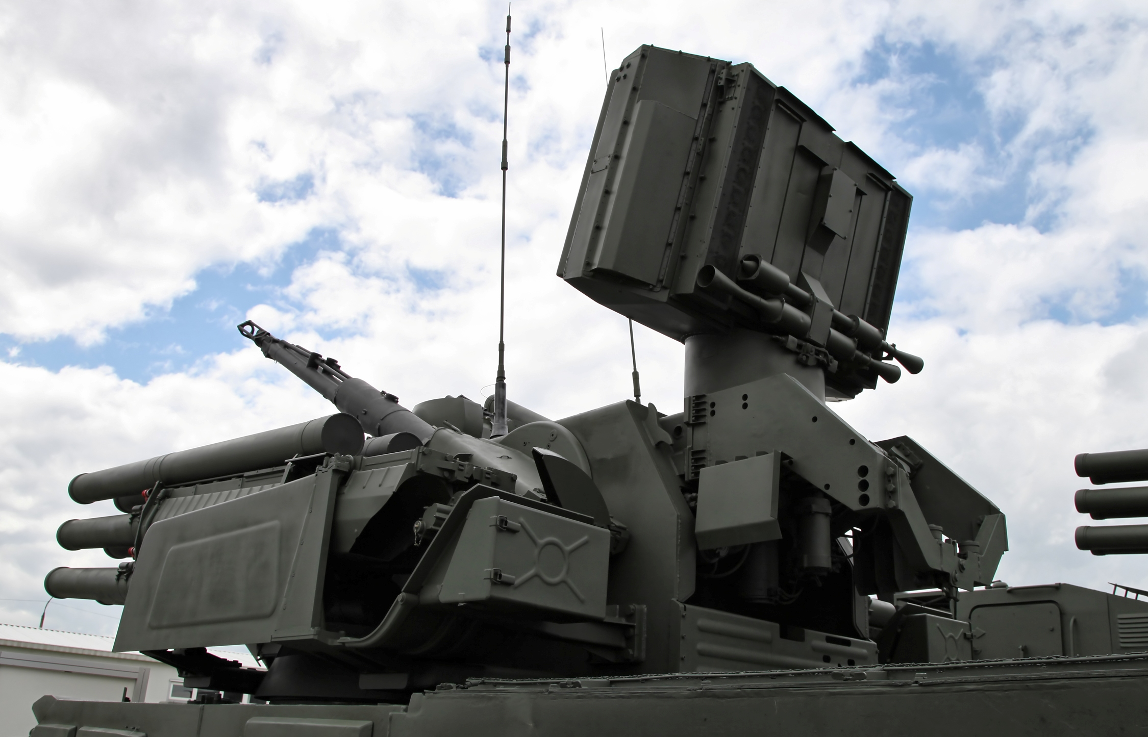 Pantsir-S1 air defence system on GM-chassis at Engineering Technologies 2012 in Russia.